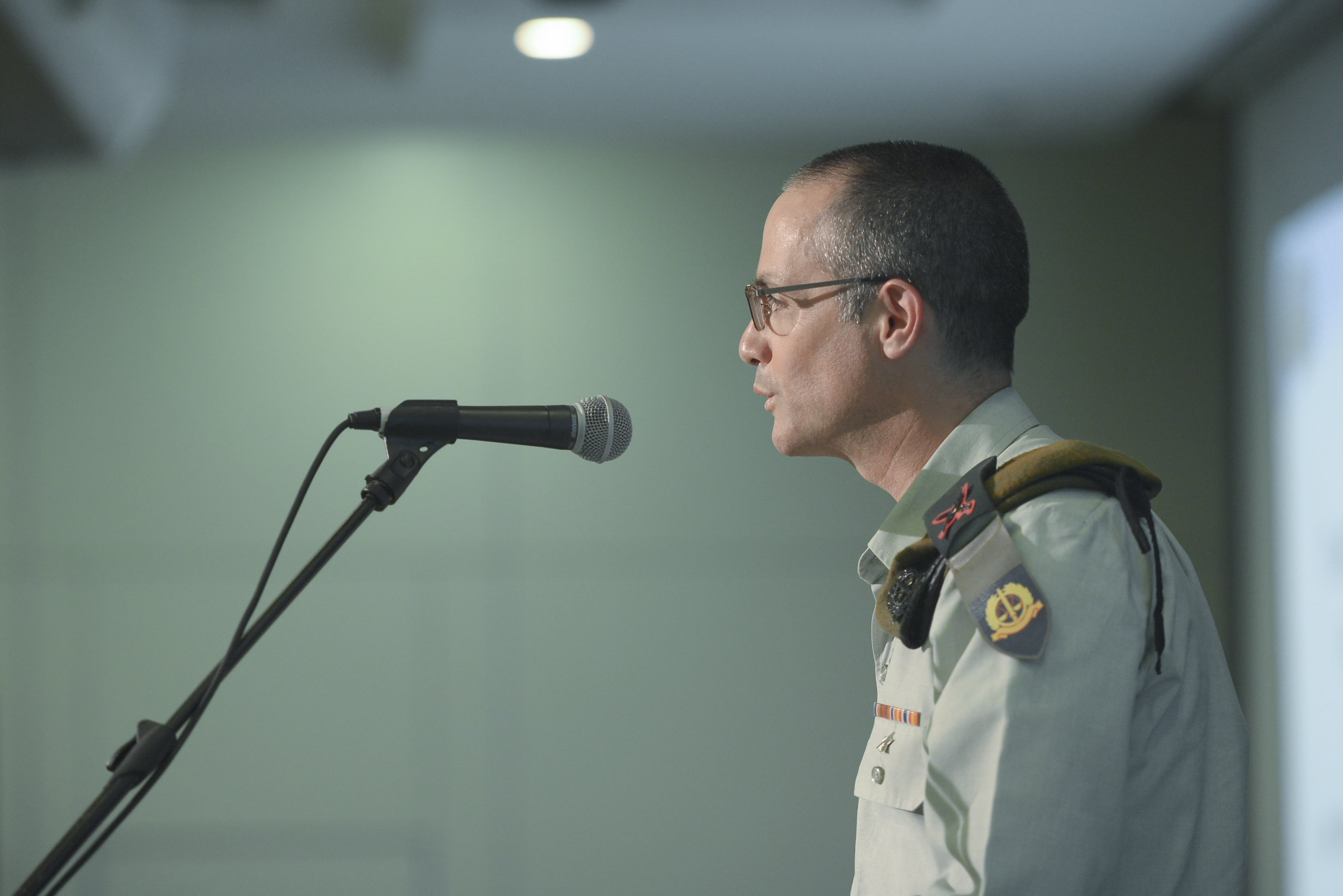 Sharon Afek in The Second Israel Defense Forces International Conference on The Law of Armed Conflict.